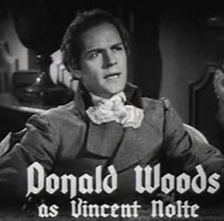 Donald Woods in Anthony Adverse - trailer (cropped screenshot)